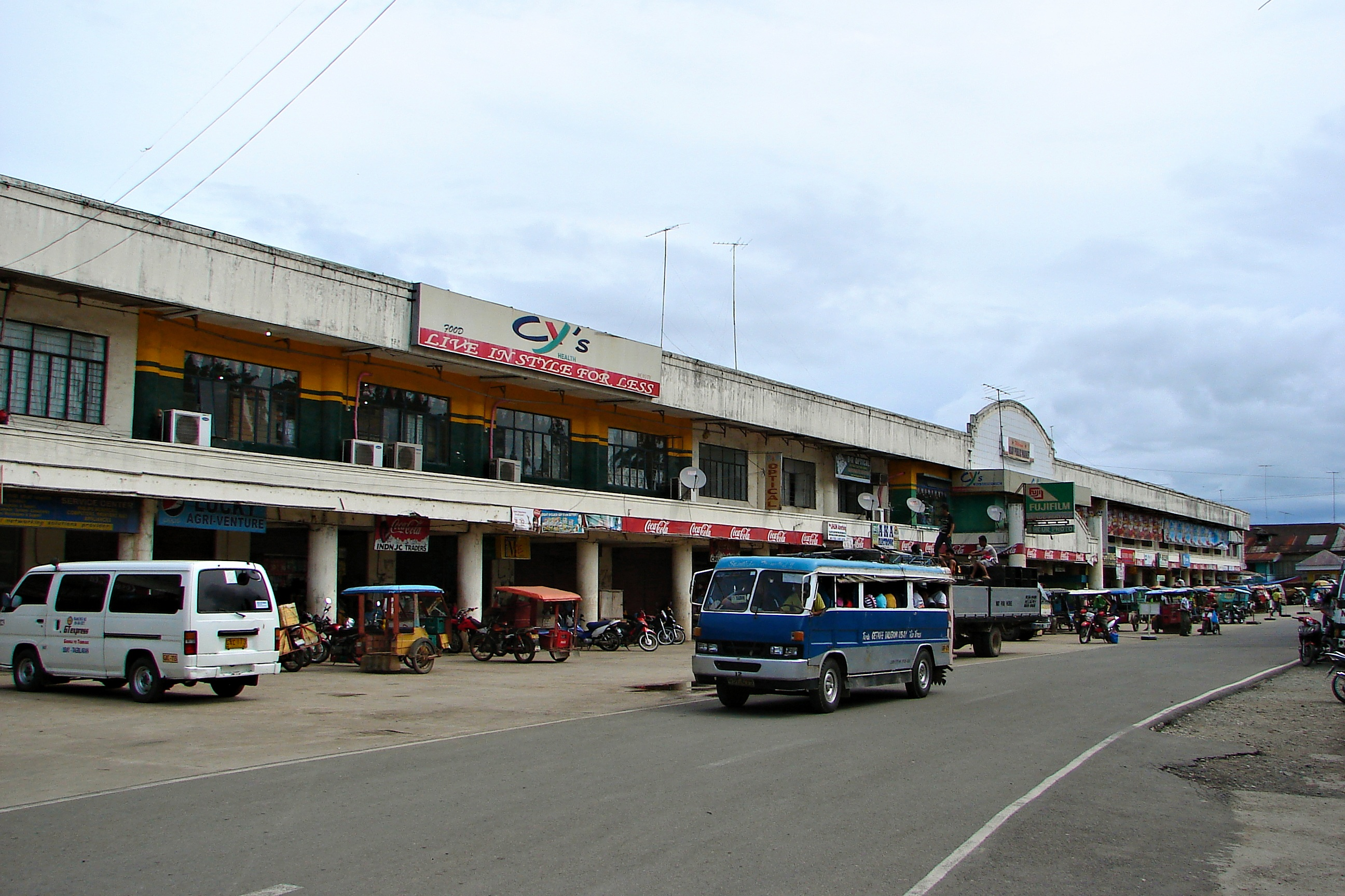 Public market, Ubay, Bohol, Philippines